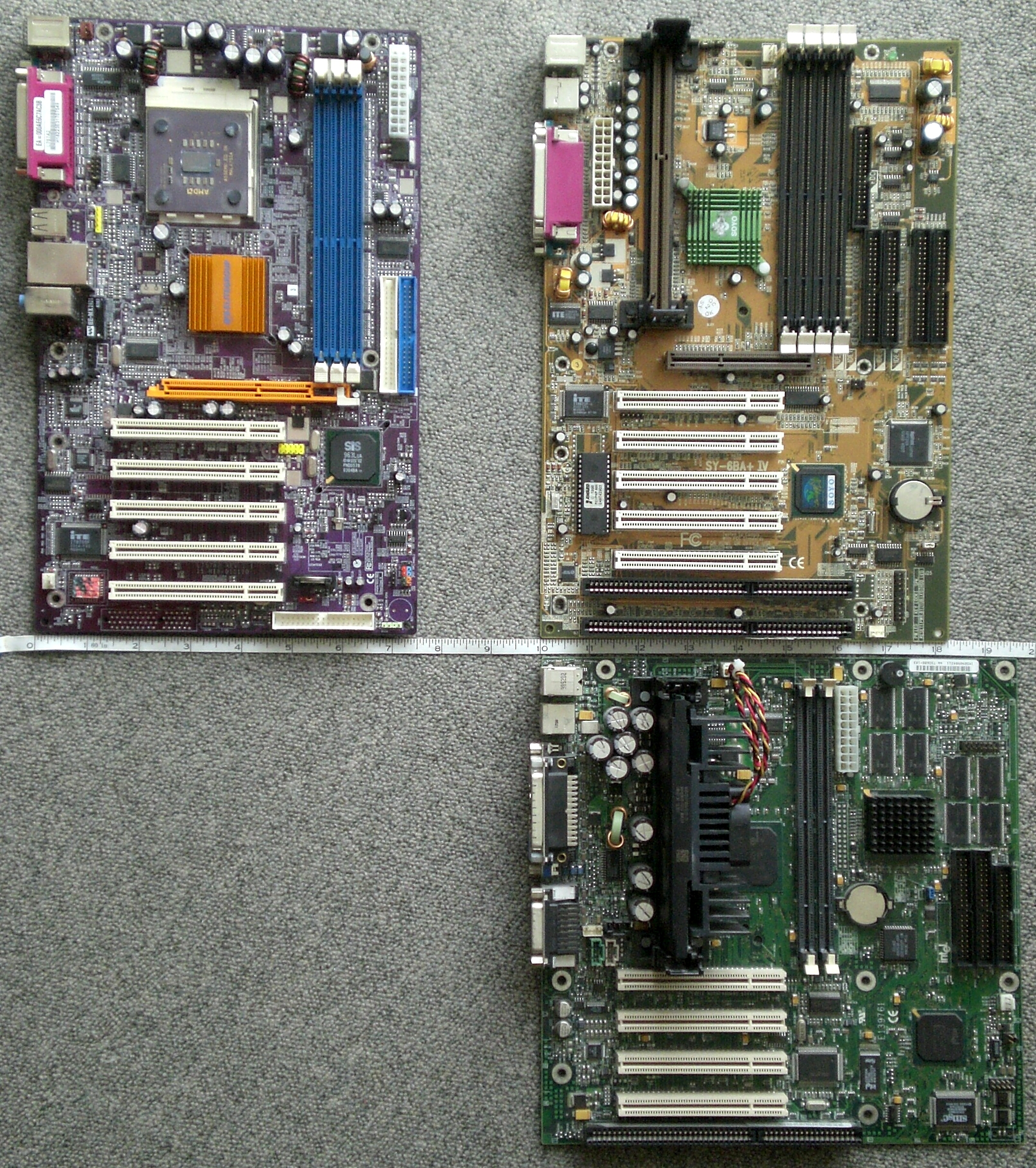 ATX motherboards; top left: ATX-Board with 12″ × 7,5″, top right: ATX-Board with 12″ × 8,25″, bottom right: microATX-Board in standard size (9,6″ × 9,6″)